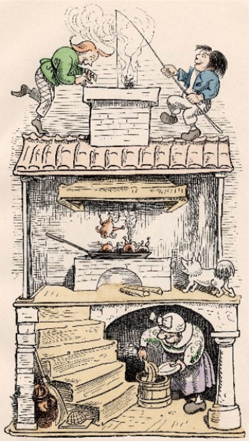 Tinted illustration from Wilhelm Busch's Max und Moritz